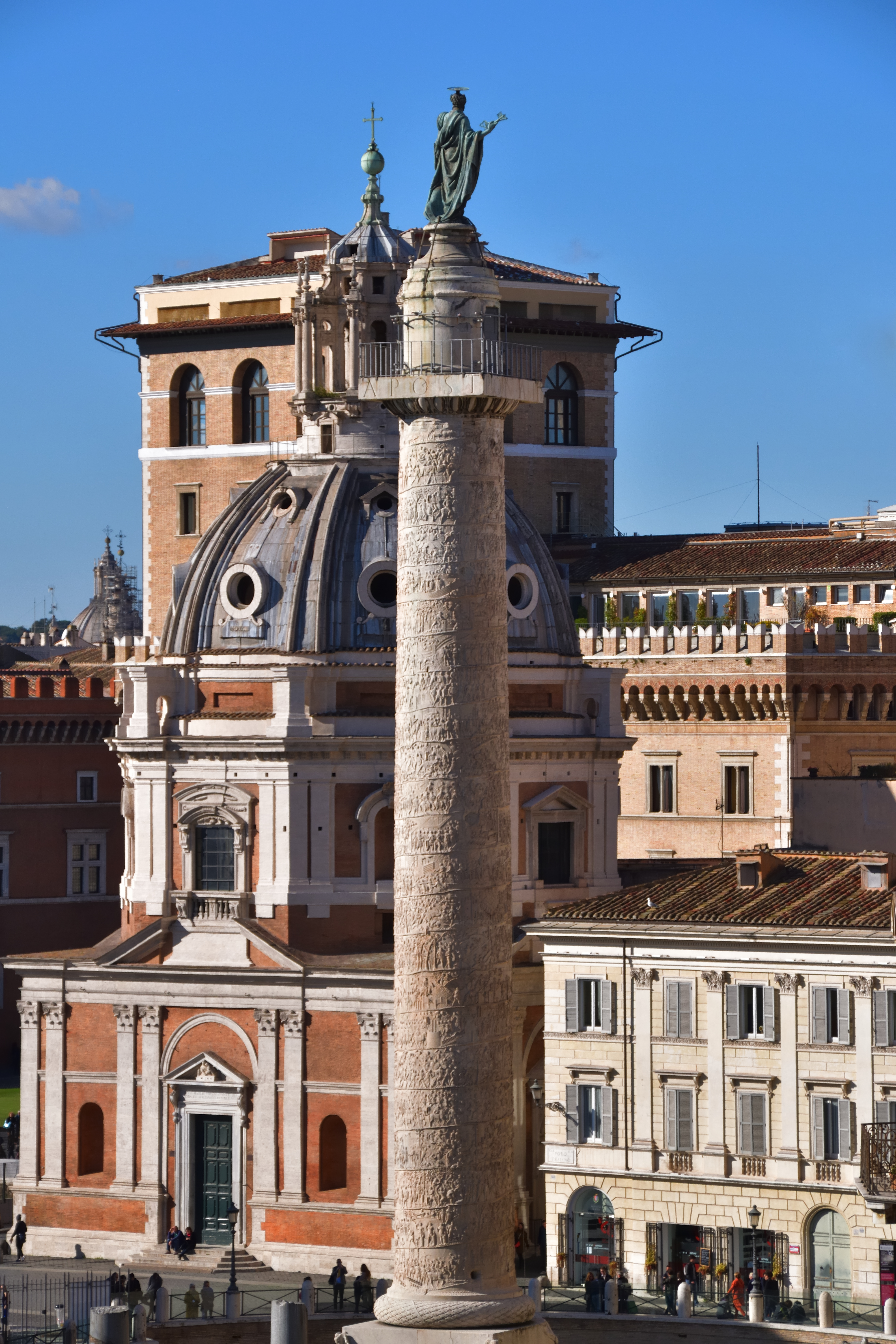 Trajan's Column seen from the Trajan` Market